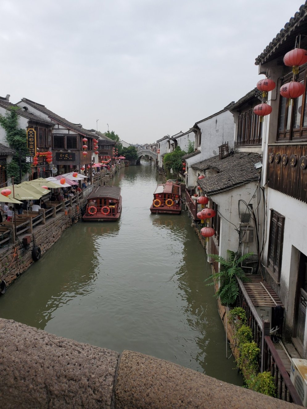 Shantang Street Canal on a cloudy day